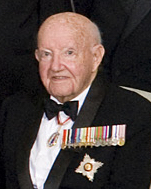 Sir Owen Woodhouse, at the Order of New Zealand dinner, on 15 October 2009.